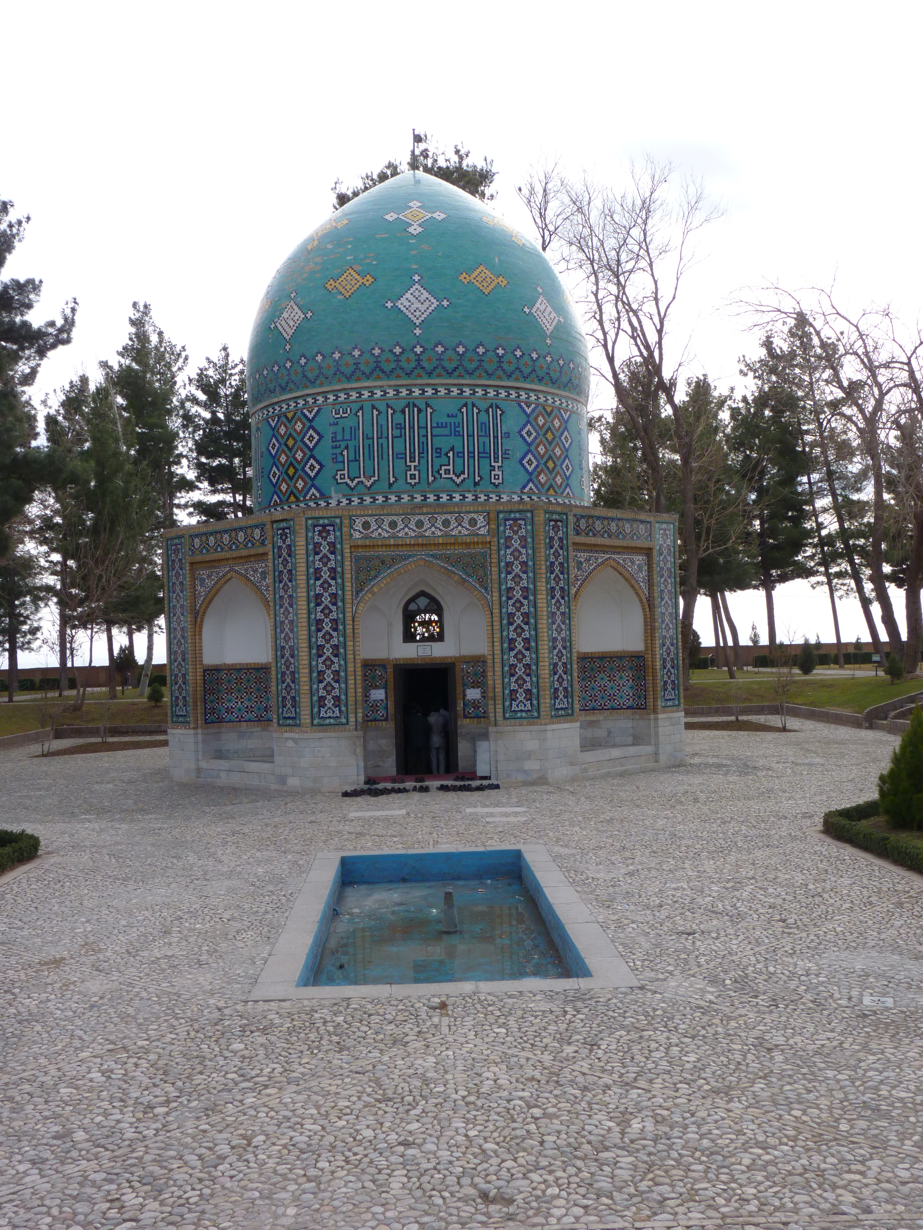 Attar Mausoleum - Nishapur